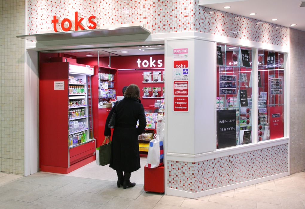 The toks in Jiyūgaoka Station